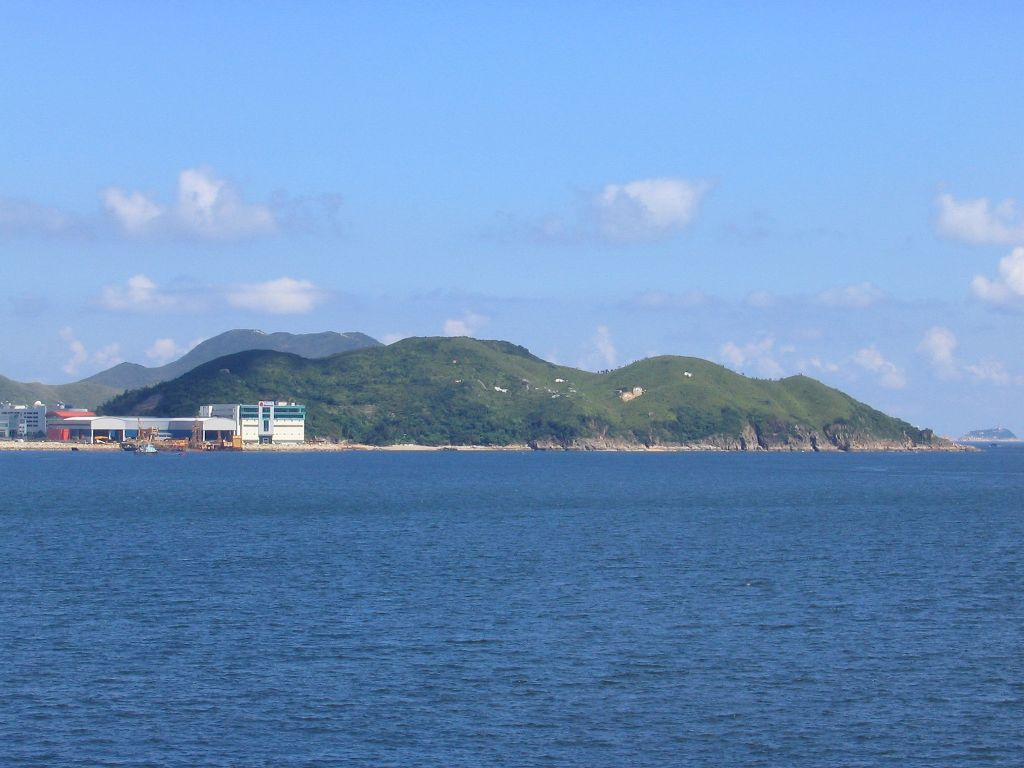 清水灣半島-佛堂洲 Fat Tong Chau, Clear Water Bay Peninsula